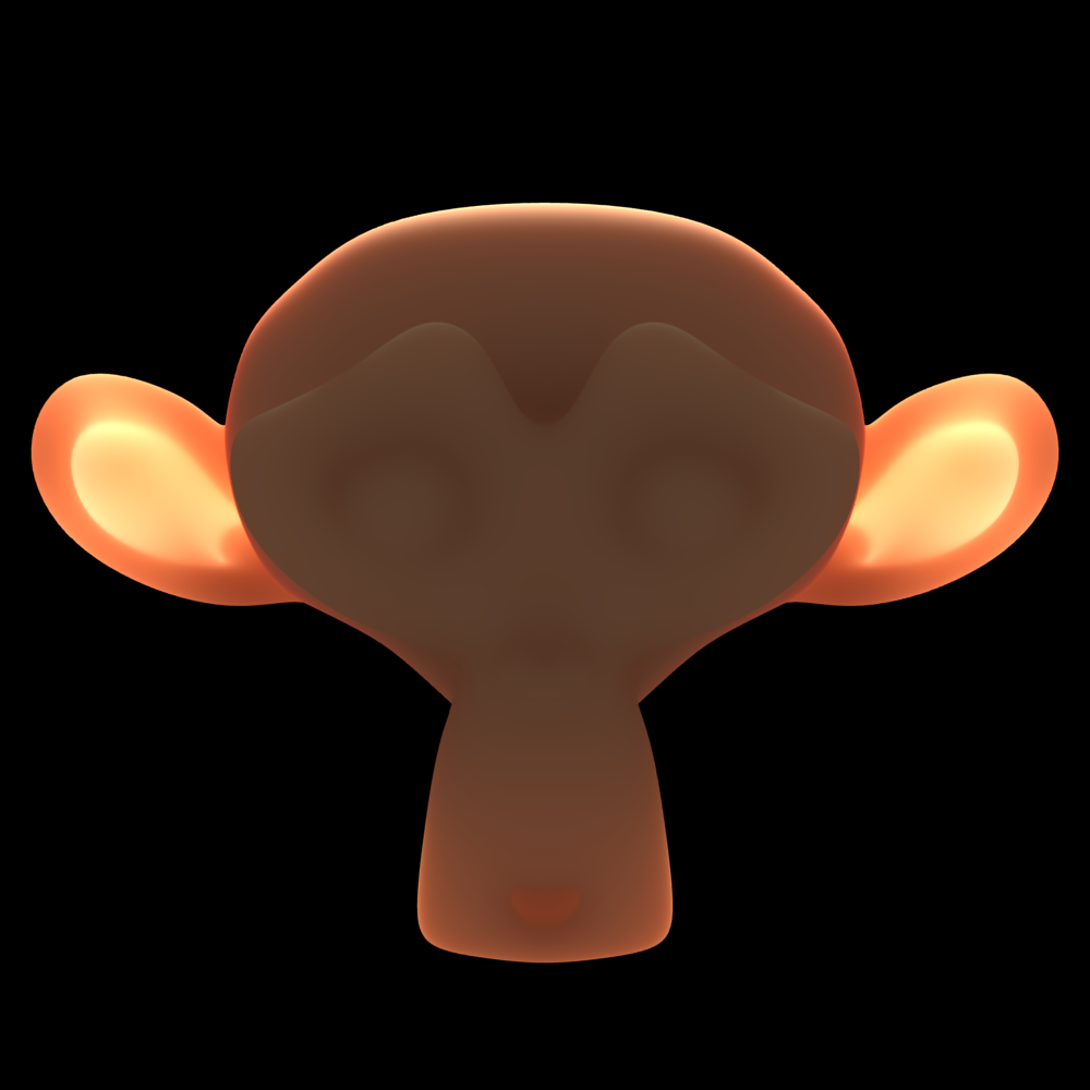 This is my own example of Subsurface scattering. Made & renderd in Blender 3D software.